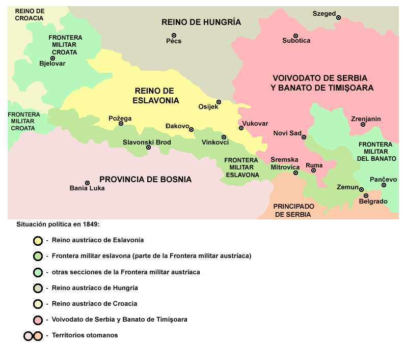 Kingdom of Slavonia in 1849 - Spanish language version.